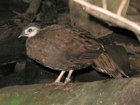 Description: Palawan Peacock-pheasant - Source: own work - Location: Bronx Zoo, New York - Author: self, User:Stavenn